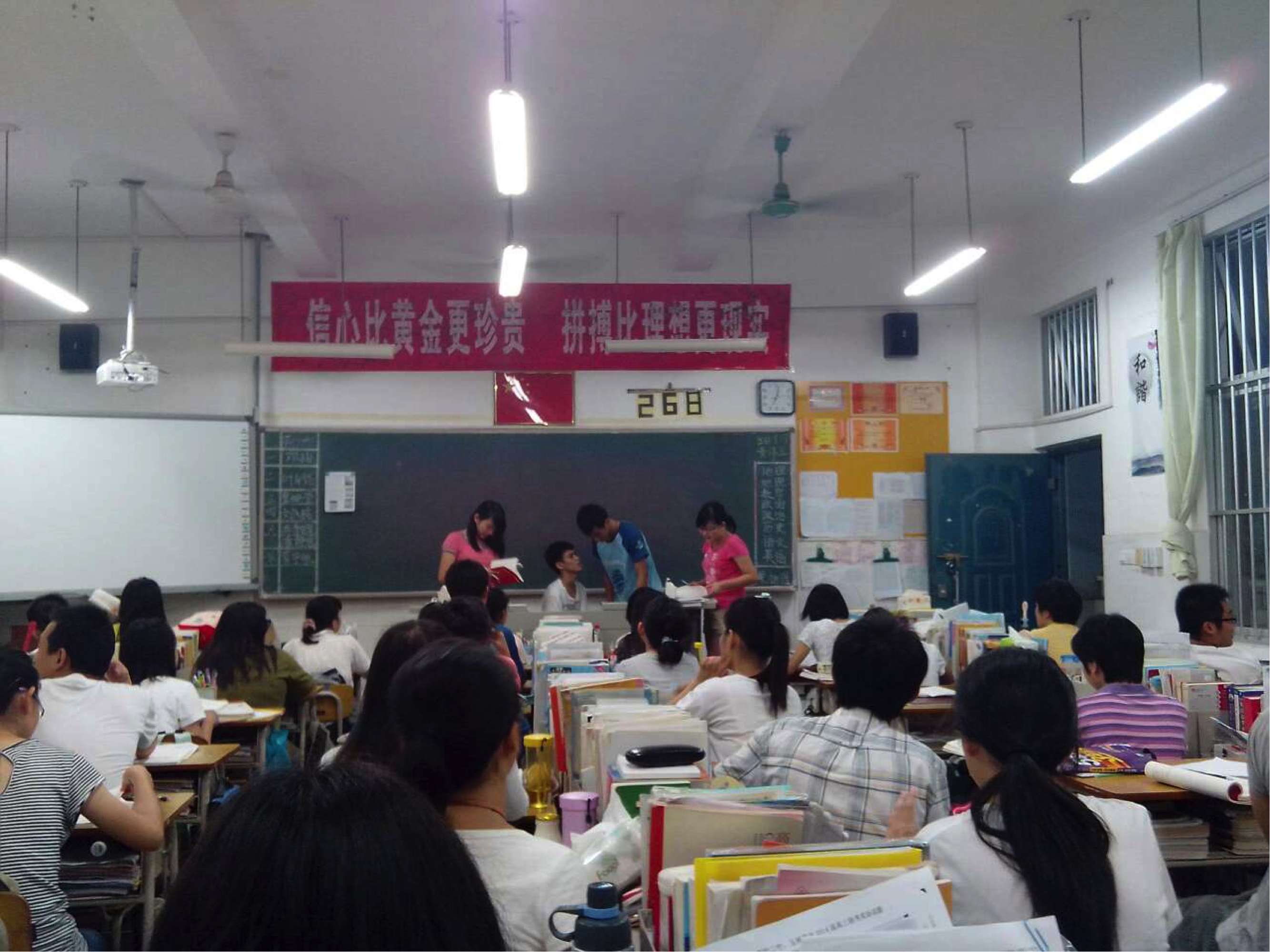 Buke in the high school education system of Mainland China